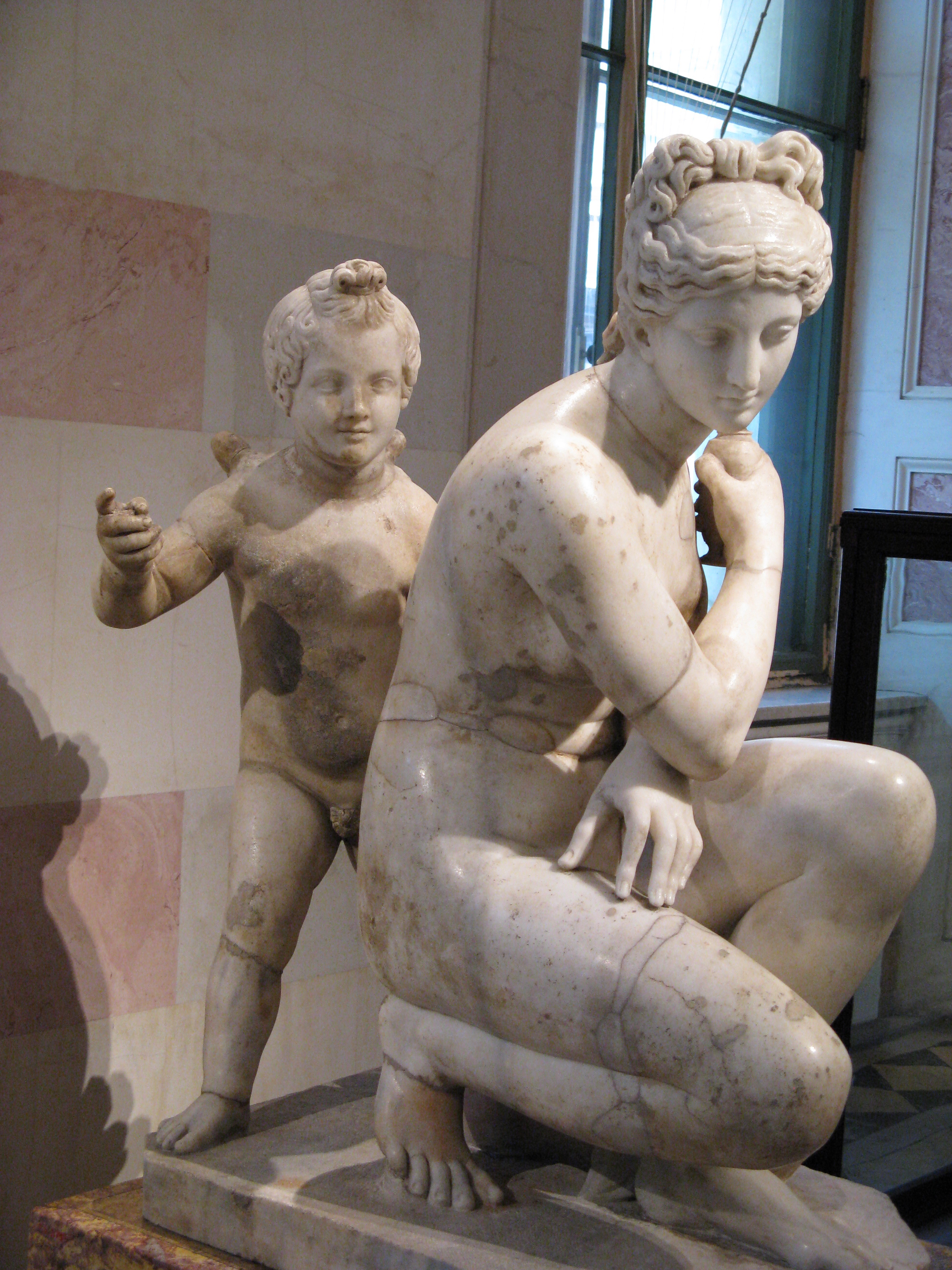 Aphrodite and Eros at the Hermitage. Roman copy from a Greek original, Ancient Rome. 2nd century. Marble. Height 89 cm.